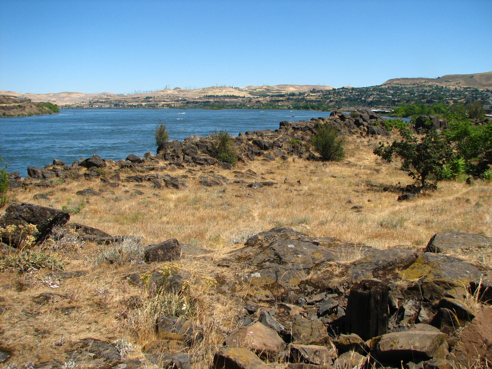 The Rock Fort Campsite at The Dalles, Oregon, United States, where the Lewis and Clark Expedition camped both westbound in 1805 and eastbound in 1806, is listed on the US National Register of Historic Places.